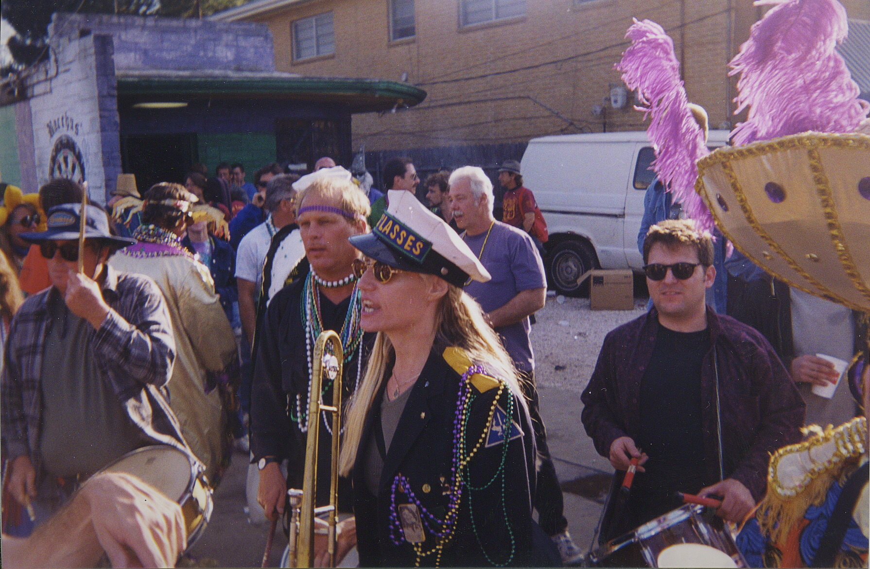 New Orleans: "Krewe of Dreux" carnival party and parade, outside Bacchus Lounge, Gentilly neighborhood, 2000.